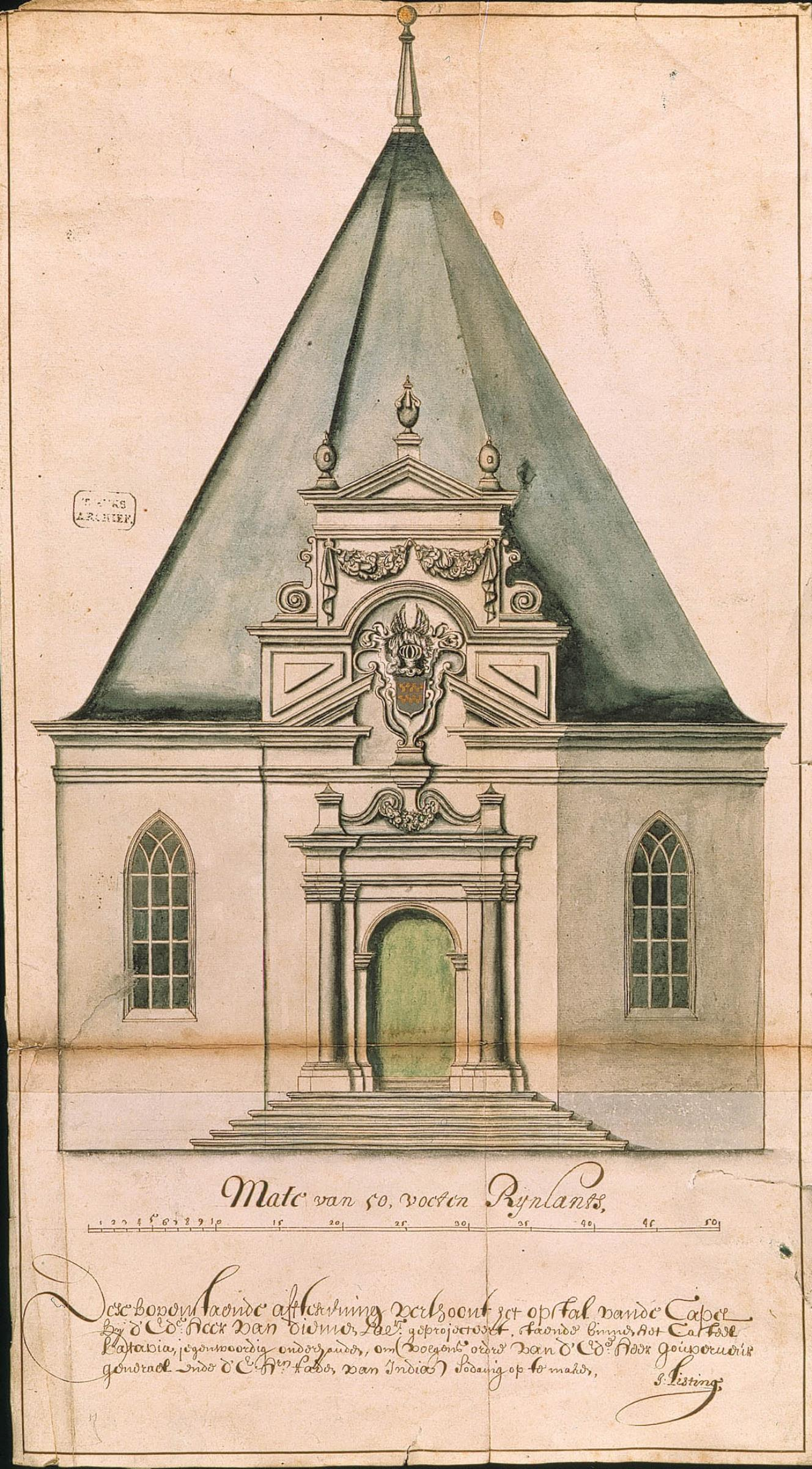 According to the Leupe catalogue (NA), the original title reads: Aftekeningh van het opstal van de Capel by den Ed. Heer van Diemen zal: geprojecteert, staende binnen het Casteel enz. A later addition in the Leupe catalogue reads: onder v. Diemen niet hoger dan kroonlijst. 100 j. gebleven daarna toren dak and refers to a catalogue to an exhibition in Amsterdam in 1919. Notes on reverse: Behoort by de Papieren van algemeen Bestuur 1658 fol. 172 Portef: 1658 I / 173 [must be the folio number in the OBP volume] / 602 ff / 40. / 1658 [in pencil].